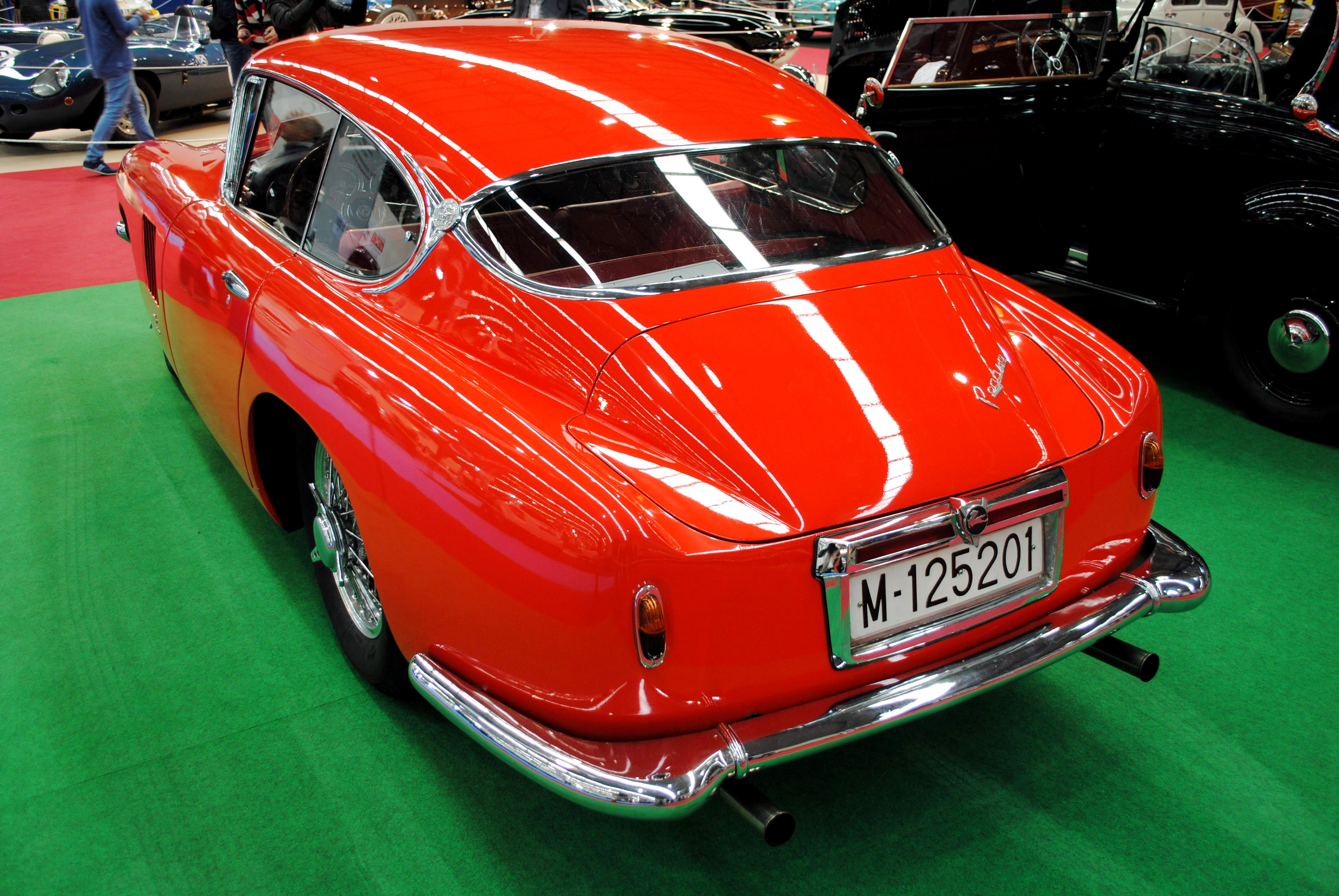 Pegaso Z103 Panorámico, 1955, IFEVI, 2014 (3).JPG